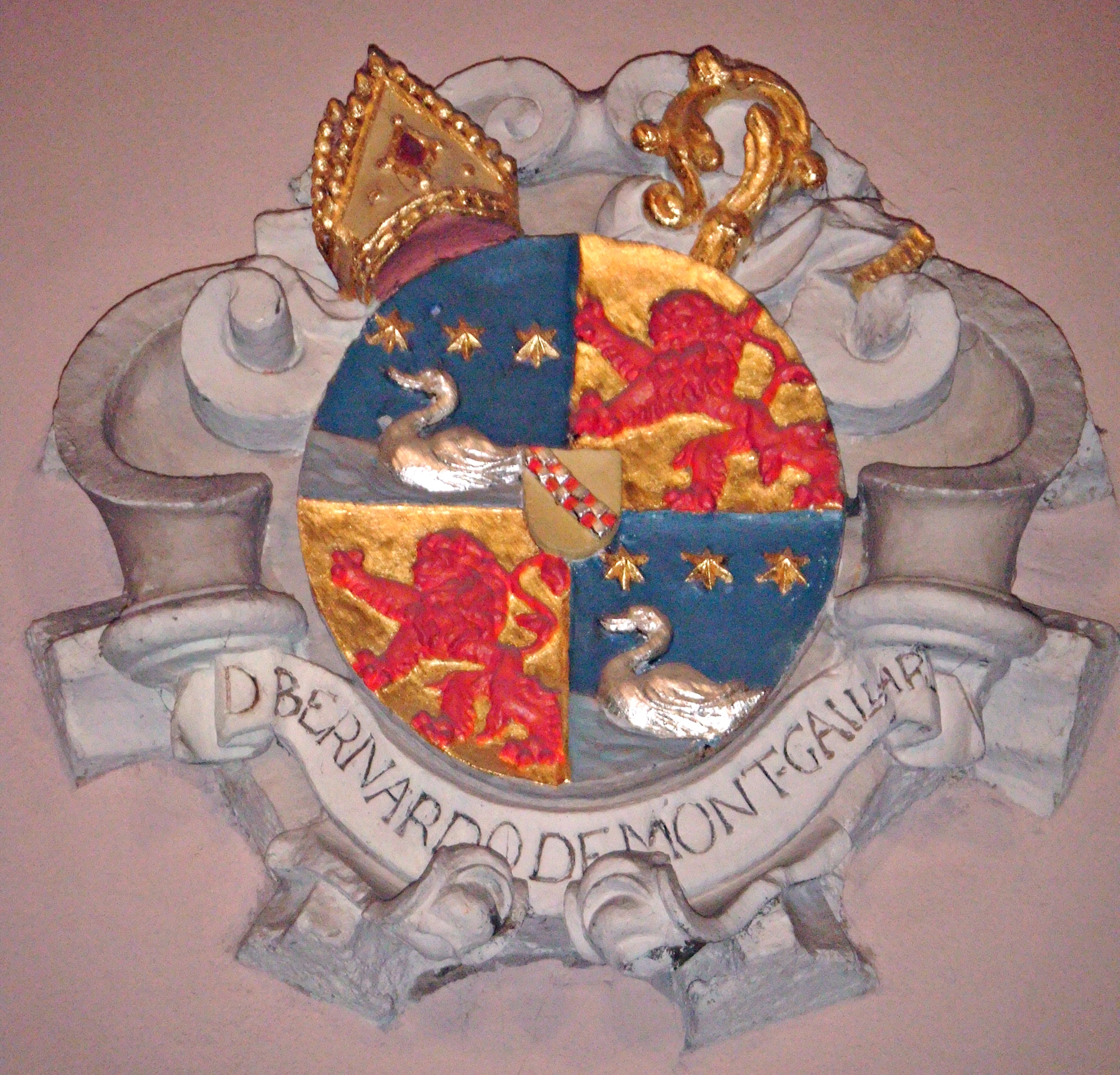 Krypta der Kathedrale Notre-Dame Luxemburg, Wappenstein des Orvaler Abtes Bernard de Montgaillard (1563-1628)